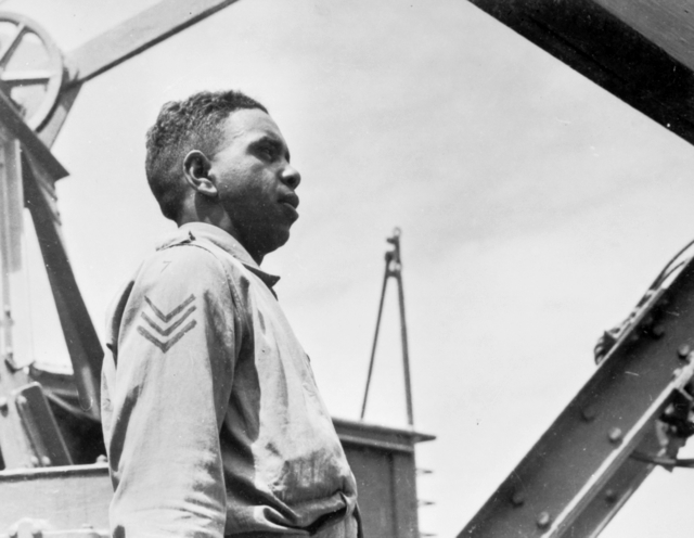 Australian War Memorial image of Sergeant Reg Saunders, who was later the first Aboriginal man to be commissioned as an officer in the Australian Army. According to the description on the AWM site, this photograph was taken somewhere at sea around September 1940.